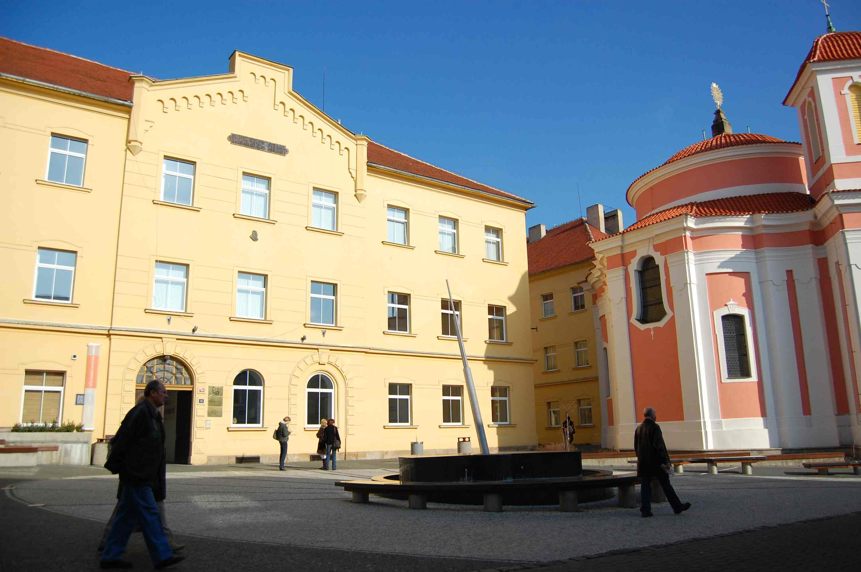 Building of Vysoká škola finanční a správní o. p. s. in Kladno